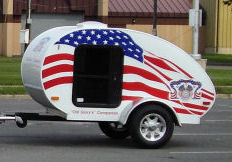 Author: Frances Rhea Source: Little Guy Teardrop Trailers URL